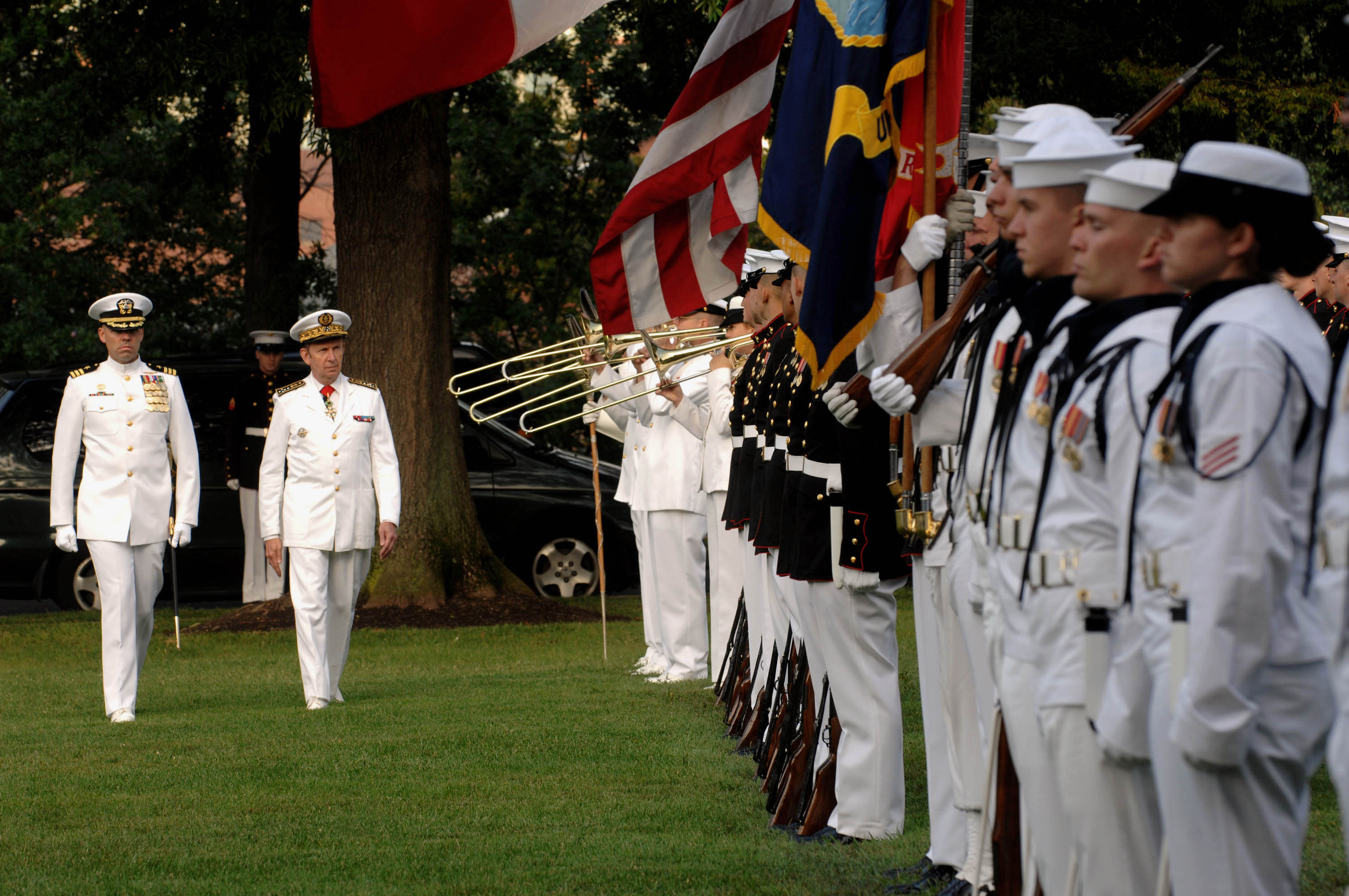 Admiral Pierre-François Forissier, Chief of Staff of the French Navy (pictured right), is escorted by Cmdr. Chris Higginbotham, commanding officer of the U.S. Navy Ceremonial Guard, left, as Forissier reviews the ceremonial guard. (Text by United States Navy)